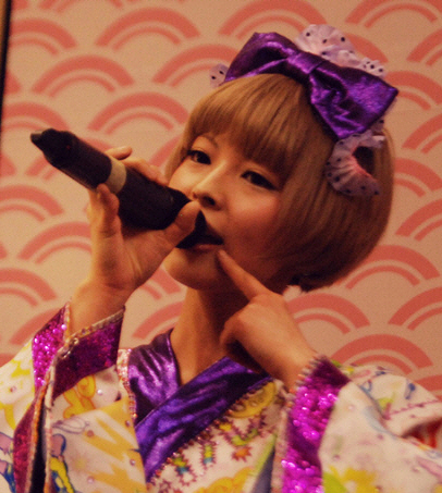 dempagumi.inc // でんぱ組.inc Live in Jakarta // KOKORONOTOMO